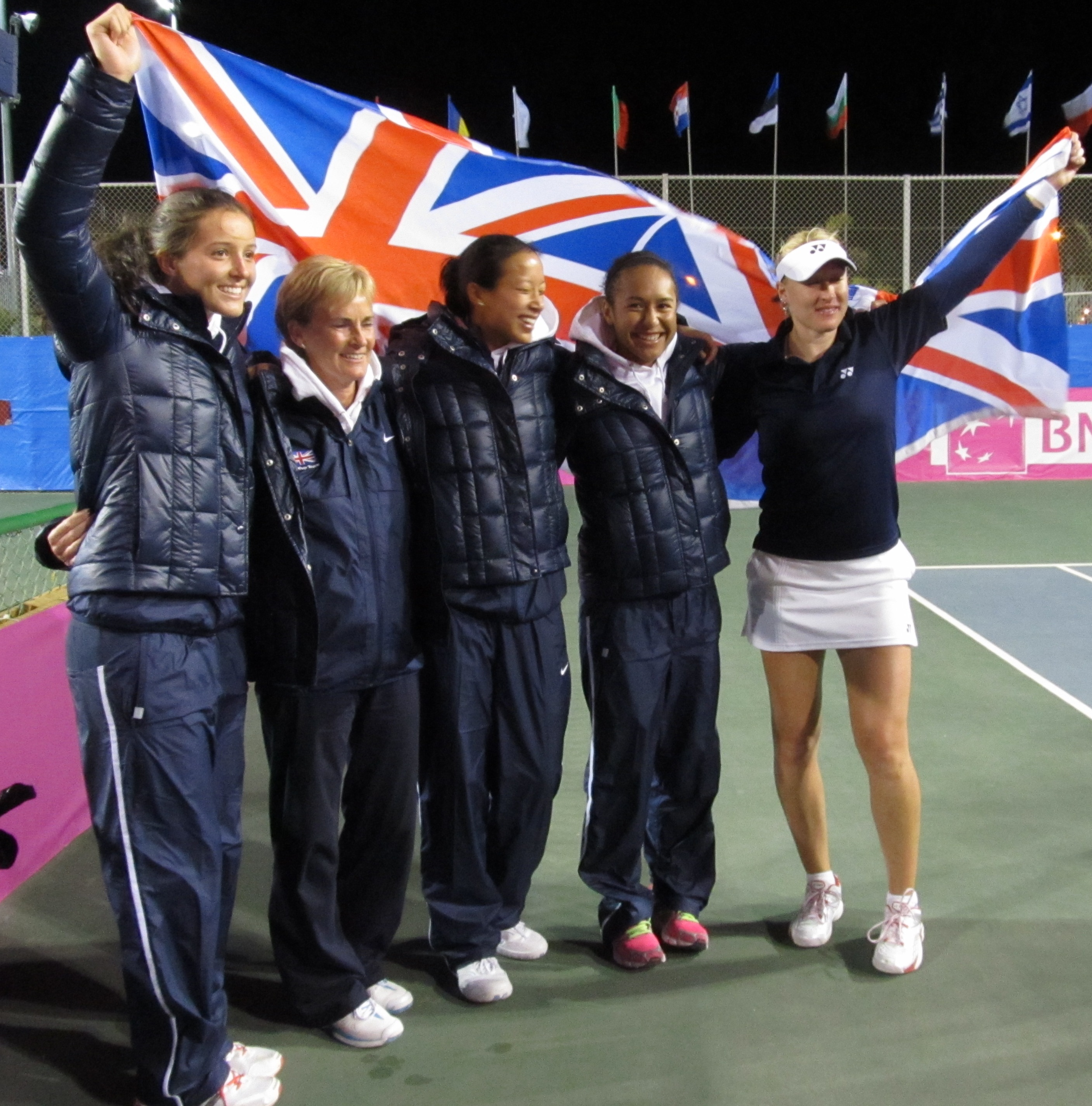 The Great Britain Fed Cup Team after defeating Austria in the 4th day of Fed Cup Group I 2012 Europe/ Africa in Eilat, Israel. Great Britain qualified to the World Group II Play-offs 2012